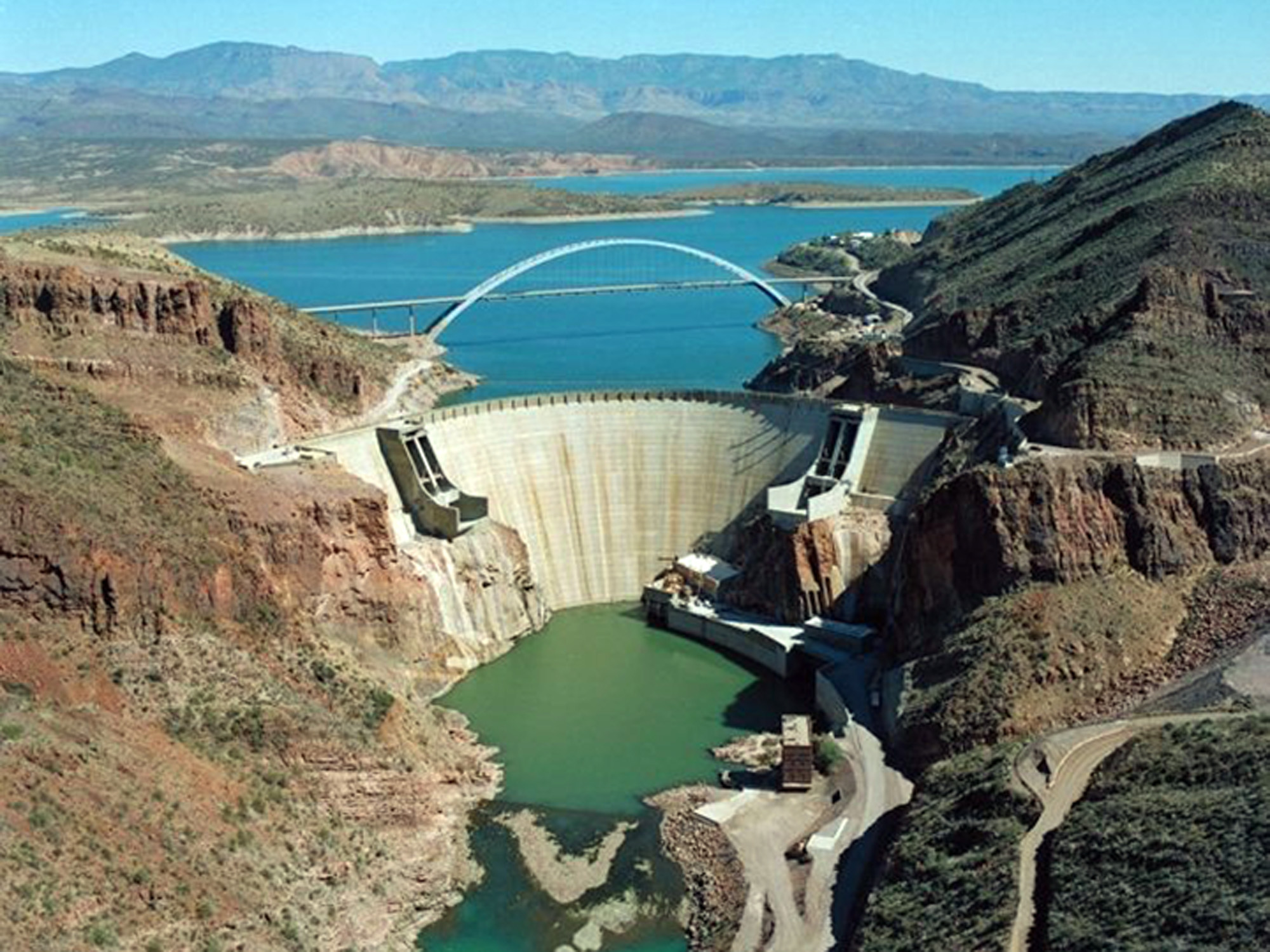 Aerial view of the Theodore Roosevelt Dam in Arizona